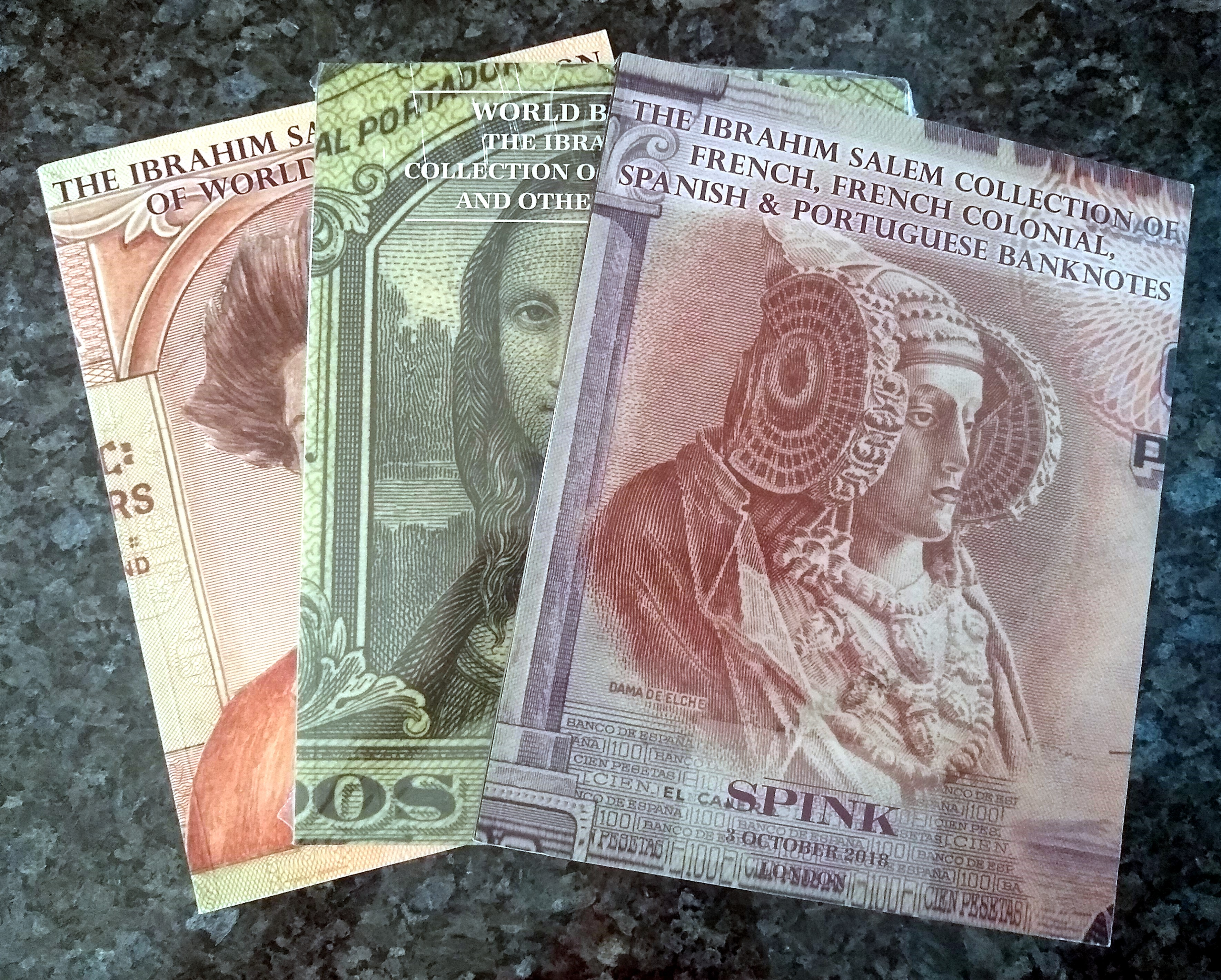 Ibrahim Salem auction catalogues. Note, image o the right is detail of 1938 Spanish banknote in which there is no copyright. Other images are de-minims